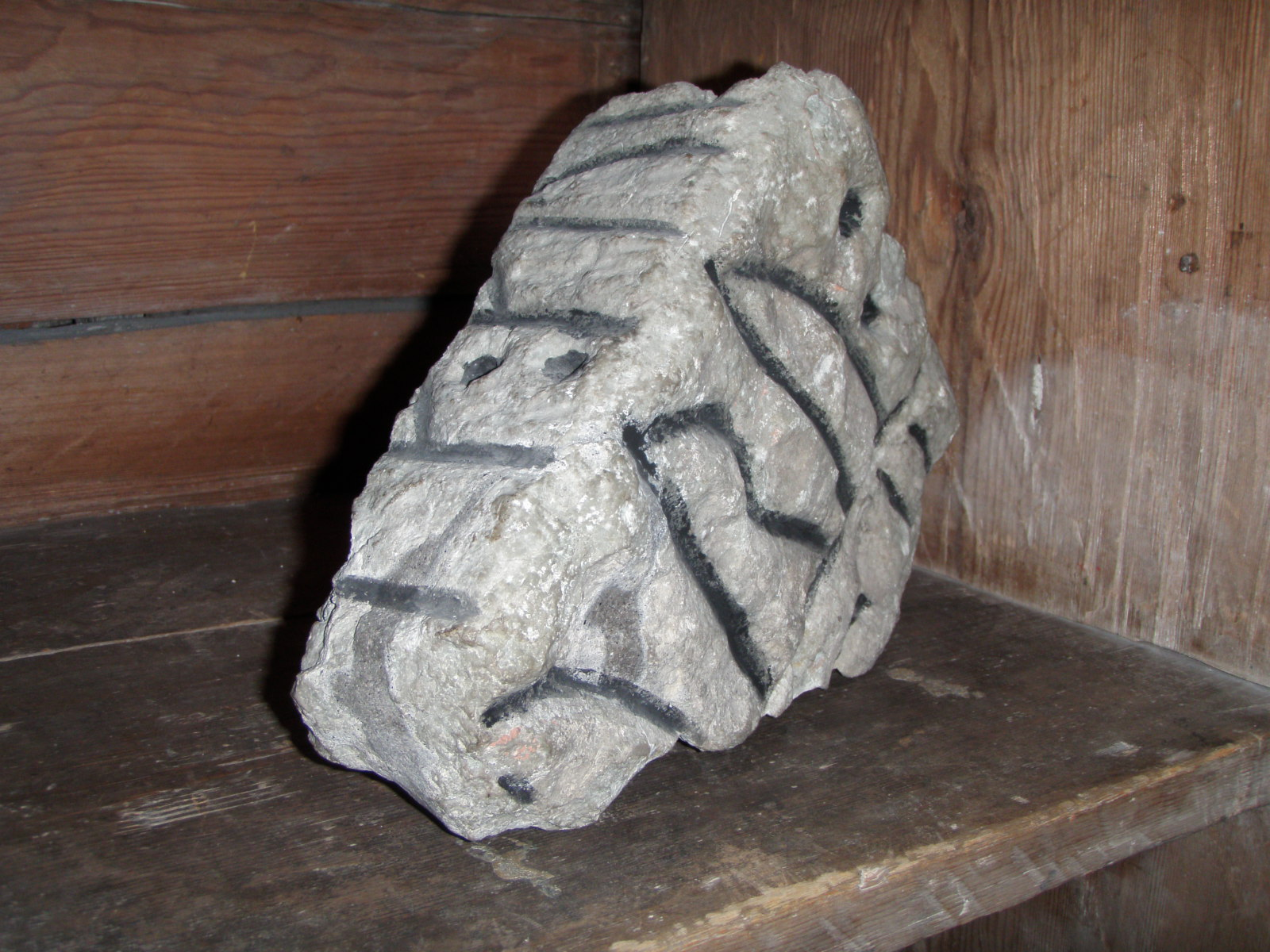 Runestone fragment Ög Fv1959;97